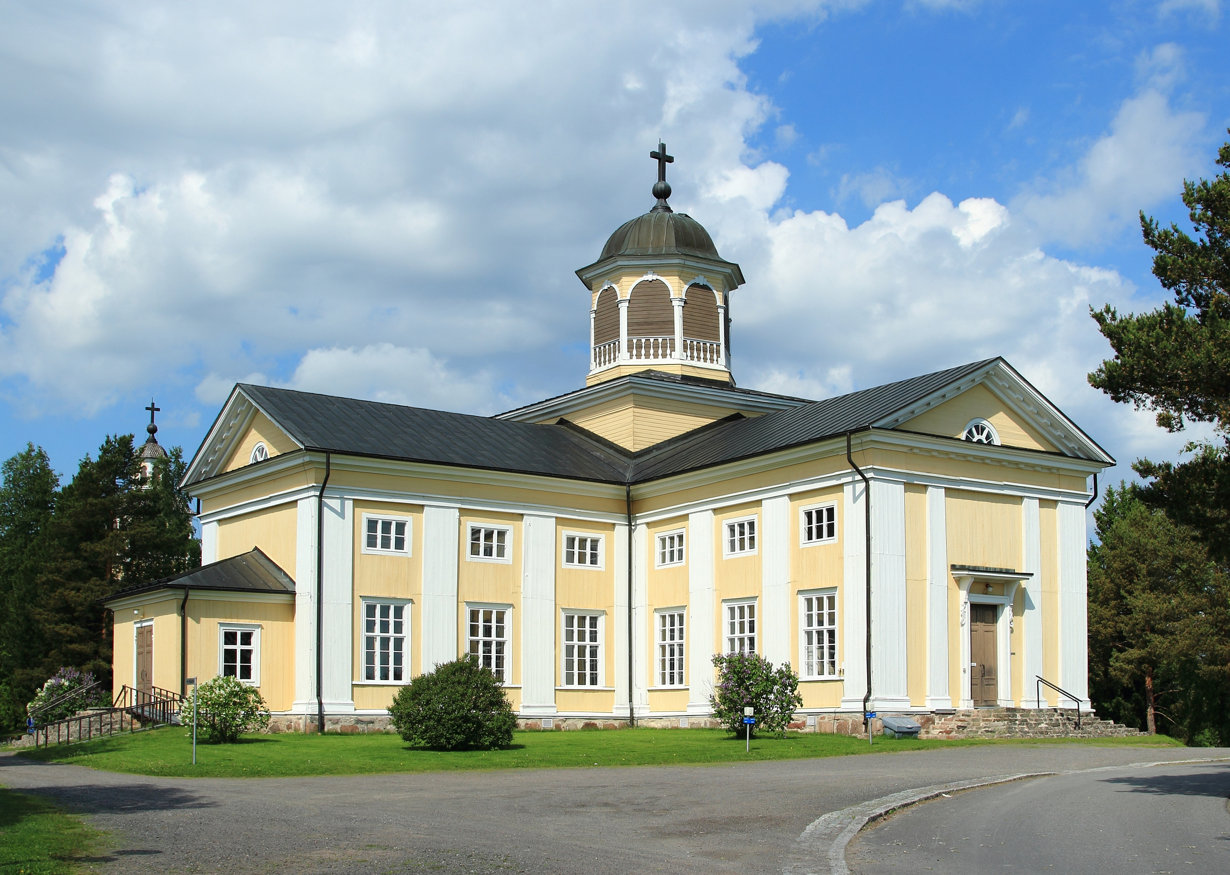 The church of Liminka.